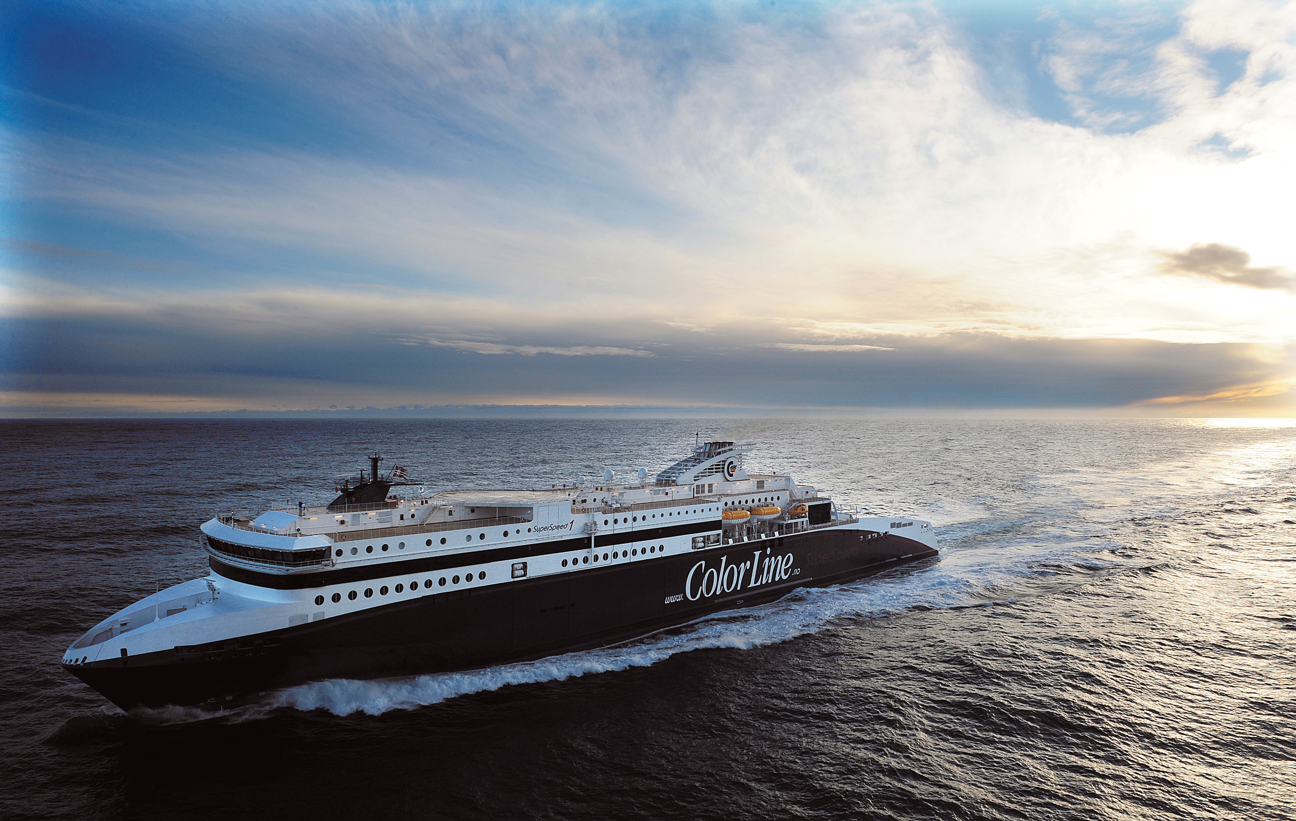 SuperSpeed 1 trafikkerer linjen Color Line betjener mellom Kristiansand – Hirtshals. SuperSpeed 1 sailes on the route Color Line operate between Kristiansand – Hirtshals. Photo: Anders Martinsen